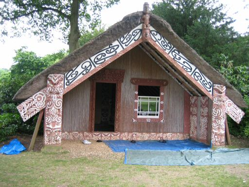 Photo of Hinemihi, the Maori Meeting House in Clandon Park, Surrey, England. This building stood at Te Wairoa village, Lake Tarawera, Rotorua district, New Zealand. The house and the village were buried in the 1886 eruption of Mount Tarawera. The name of the house in full is Hinemihi o te Ao Tawhito (Hinemihi of the ancient world).